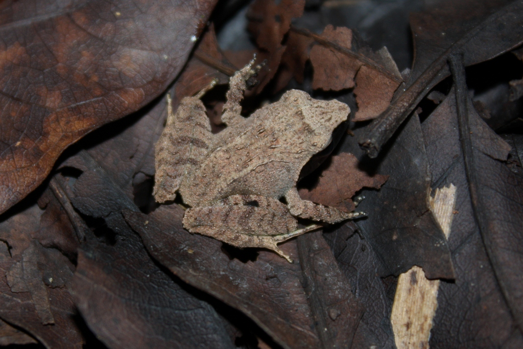 Found during the day in amongst leaf litter on Bohol. This was smaller than the other P. corrugatusfrog found at the same location, juvenile perhaps or male? Thanks to Arvin Diesmos for the identification.